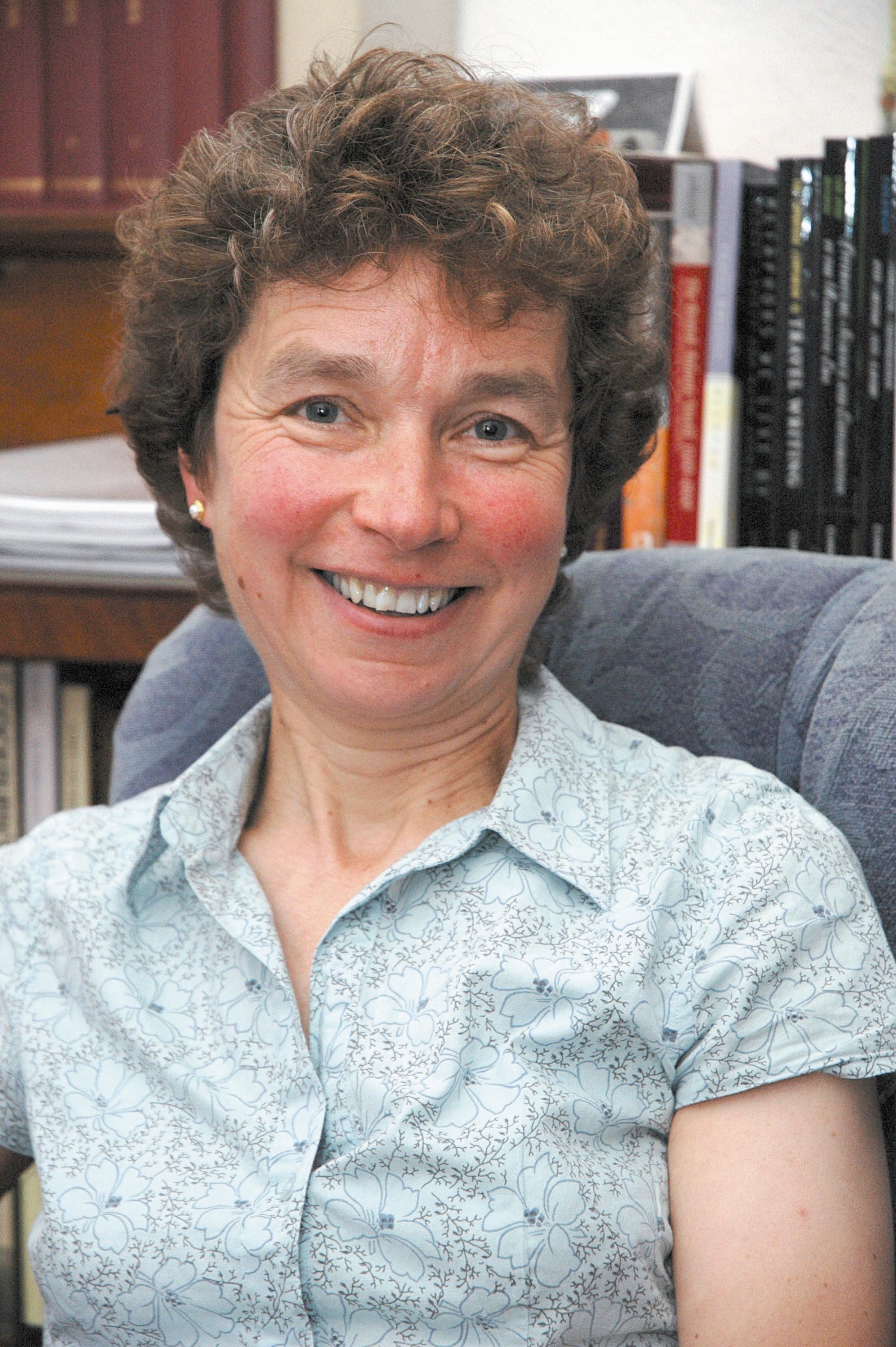 Picture of Prof. Susan Manning in her office